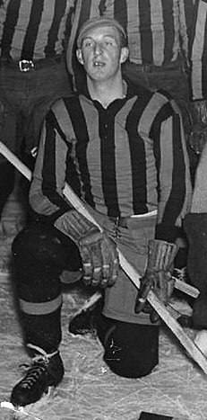 Swedish football- and hockey player, Sven Bergqvist